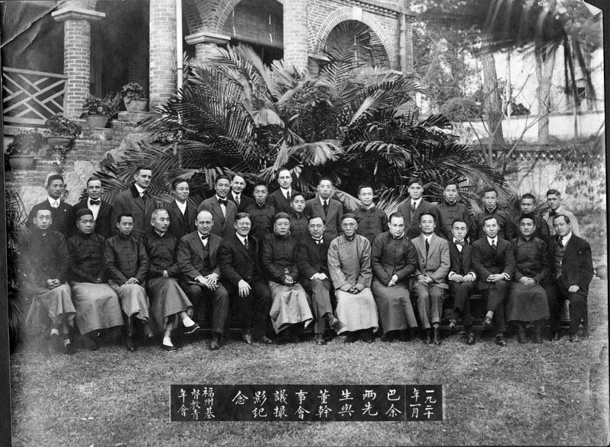 YMCA Board of Directors, Fuzhou, Fujian, China